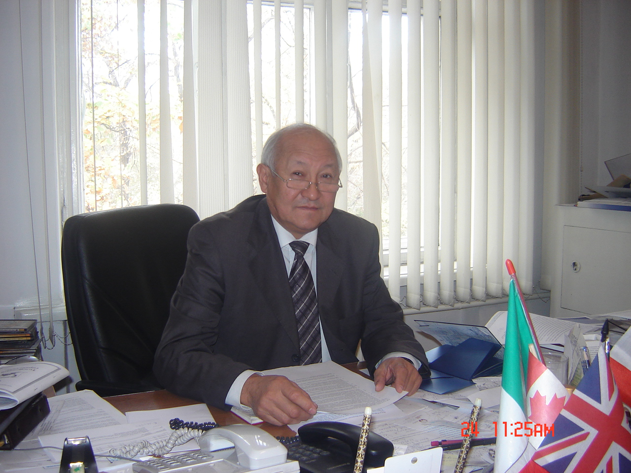 rector of the BAFE